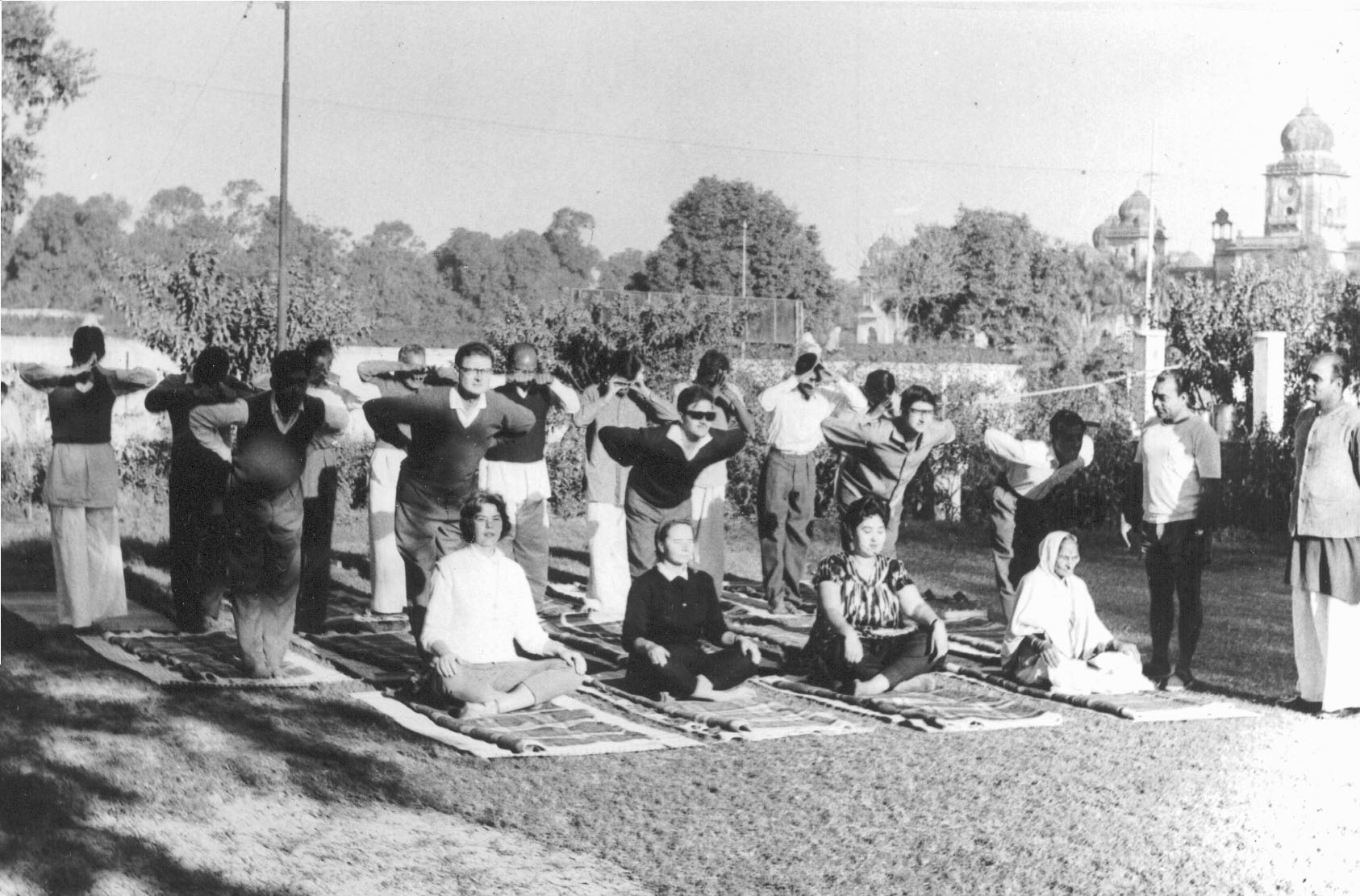 Lucknow. The group of pupils with Gurus.